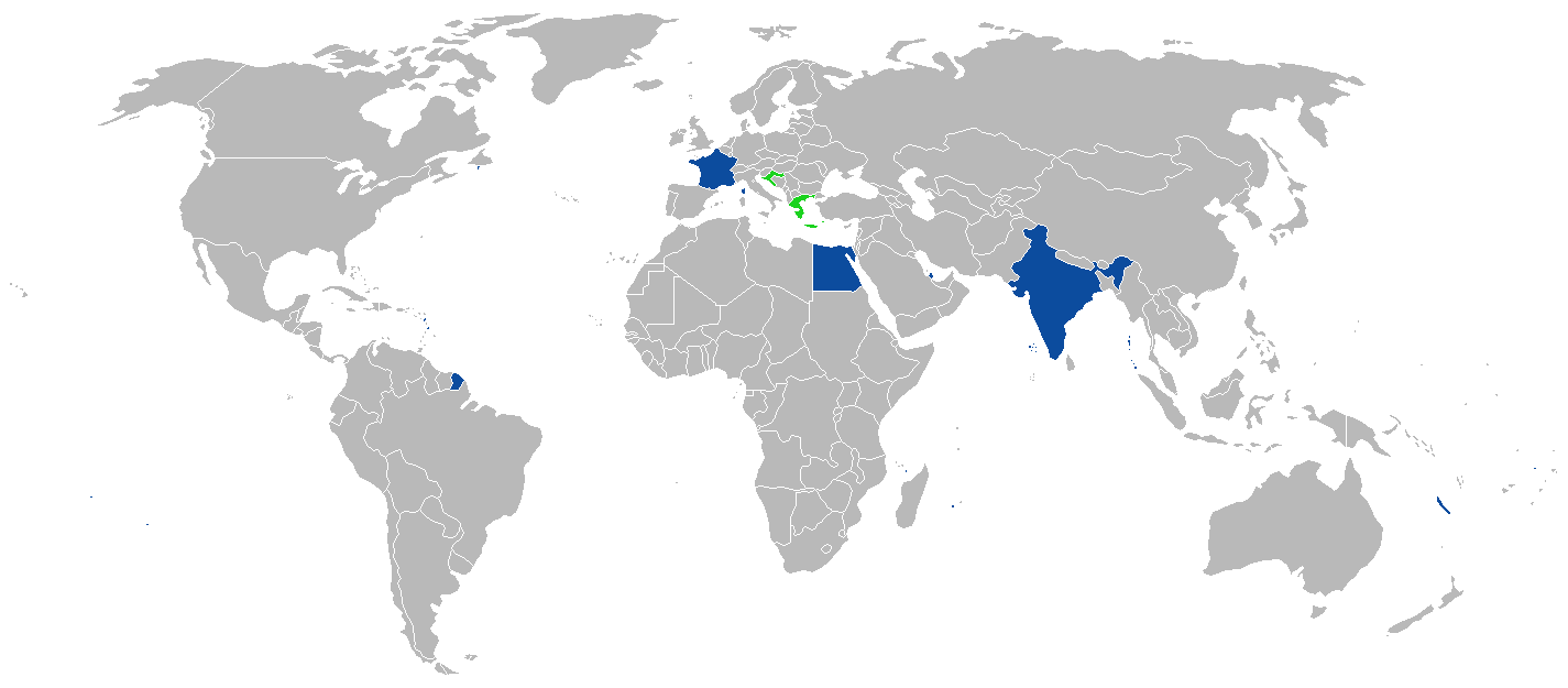 Operators of the Dassault Rafale. Current operators Aircraft ordered